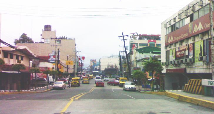 A view of downtown Olongapo City in the Philippines